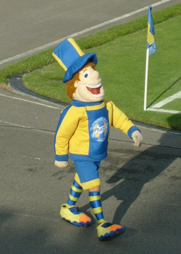 FC BATE talisman